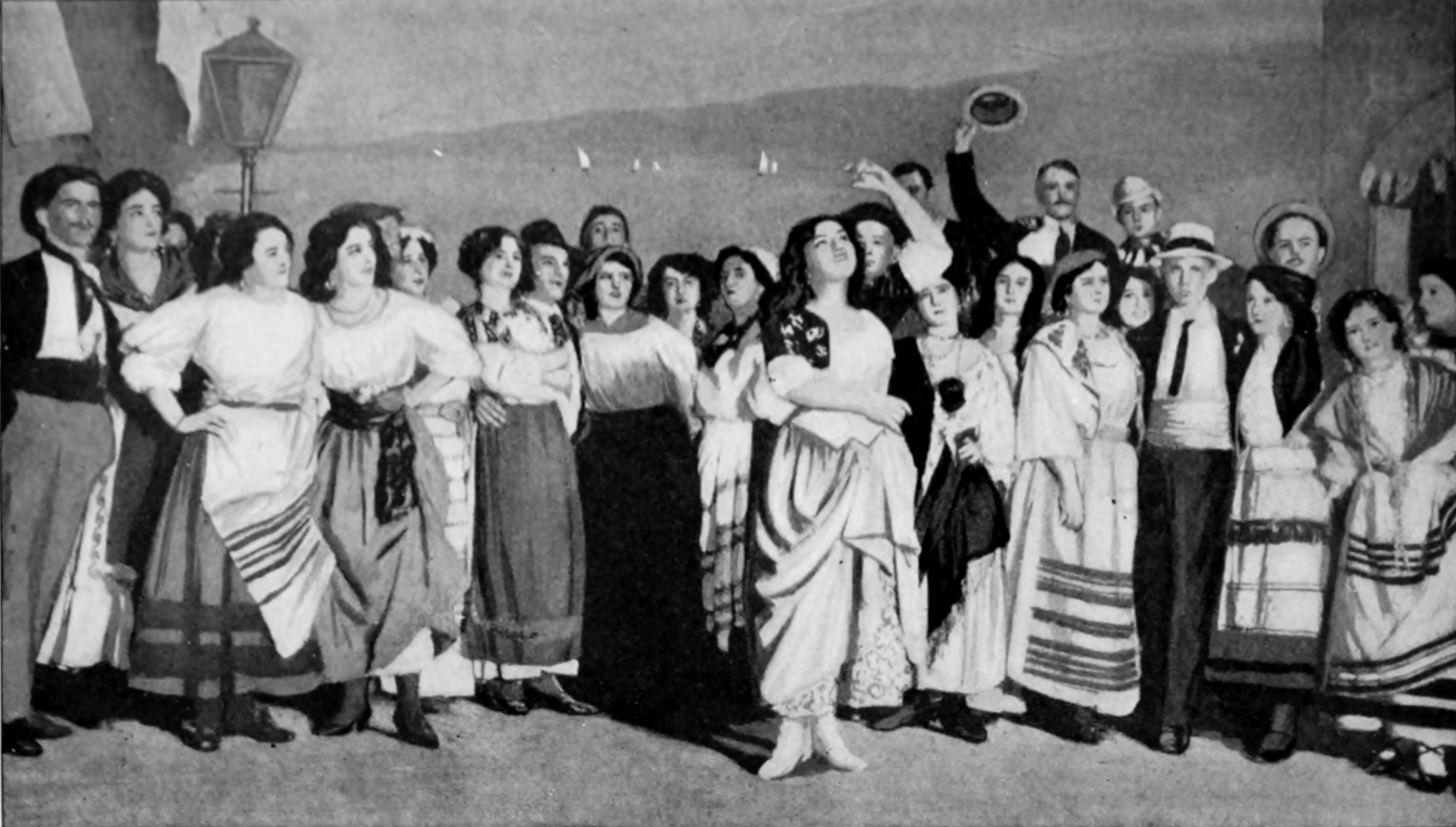 Wolf-Ferrari - I gioielli della Madonna - Scene - The Victrola book of the opera